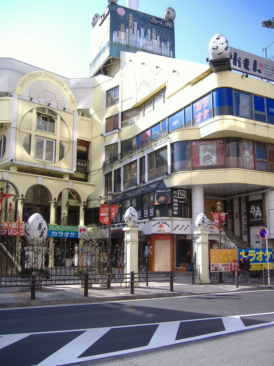 Amusementcenter "Akai-fuusen" (Yokohama,Japan)